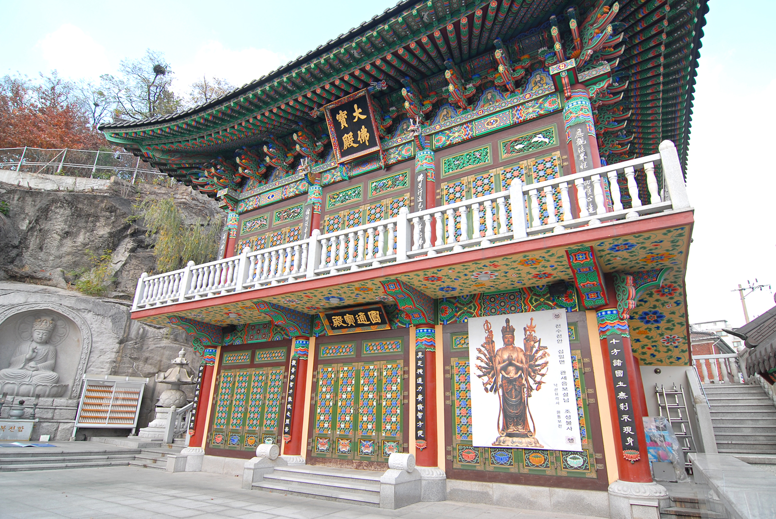 Myogak Temple1